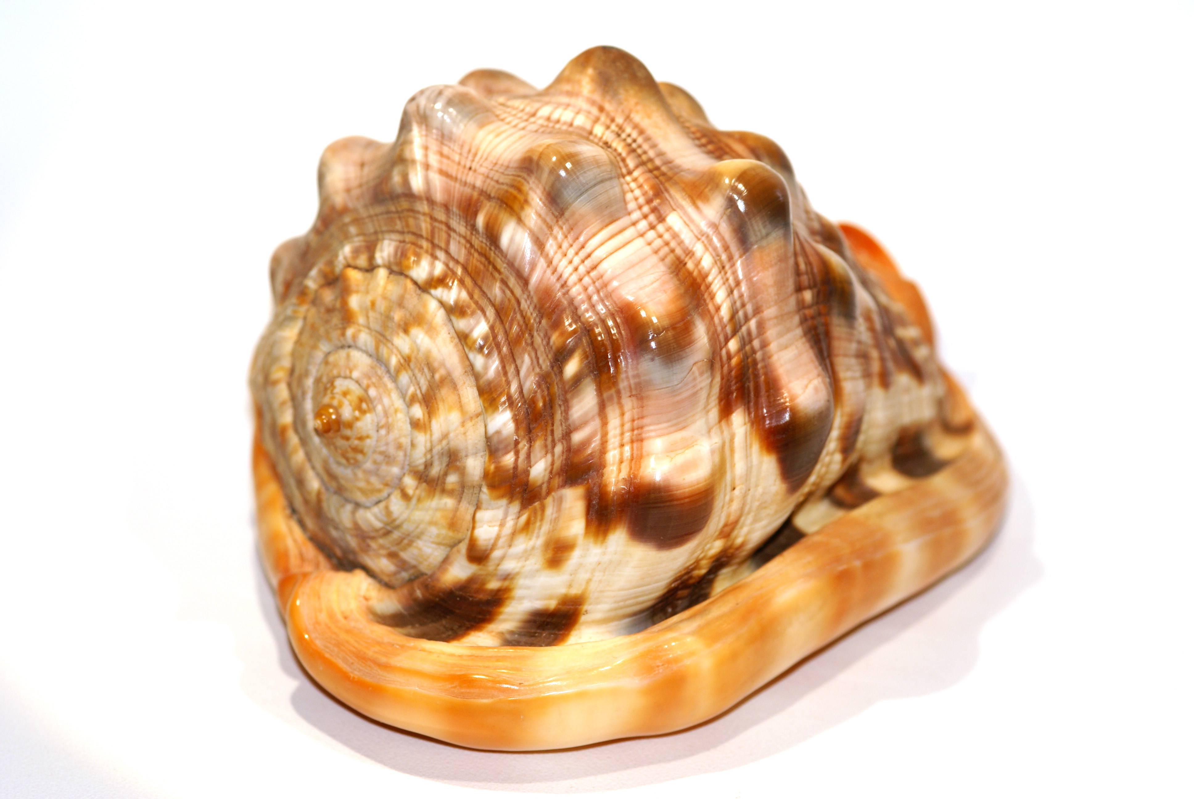 The shell of Cypraecassis rufa.